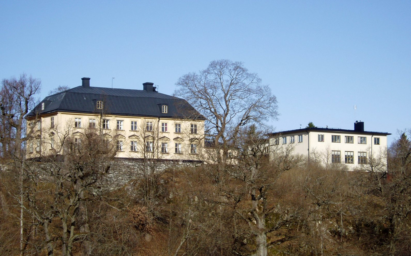 Folk high school Jakobsberg, Järfälla municipality, Sweden